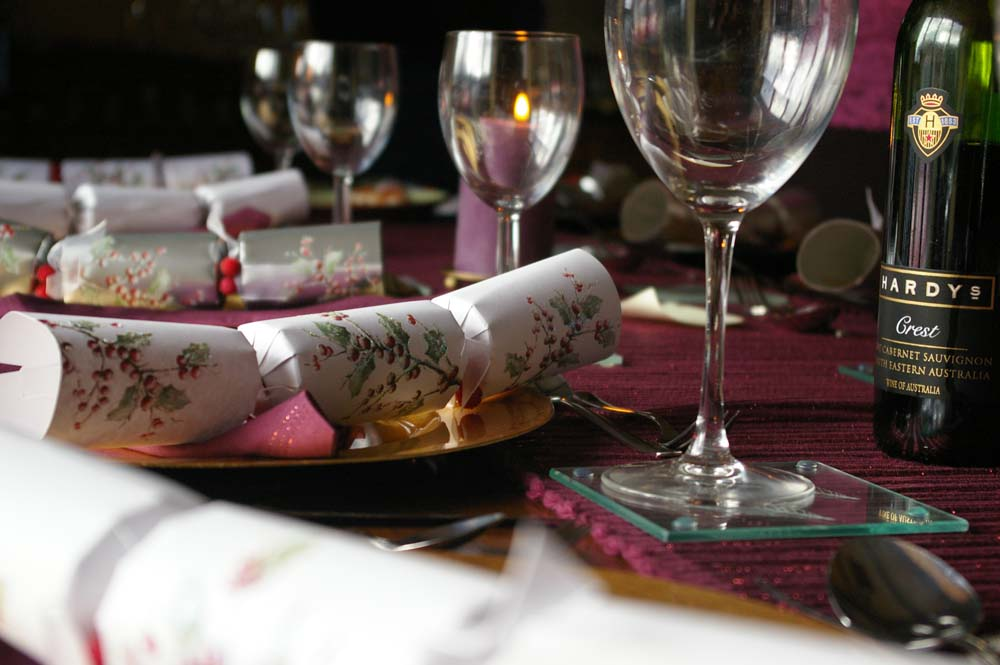 Christmas cracker table